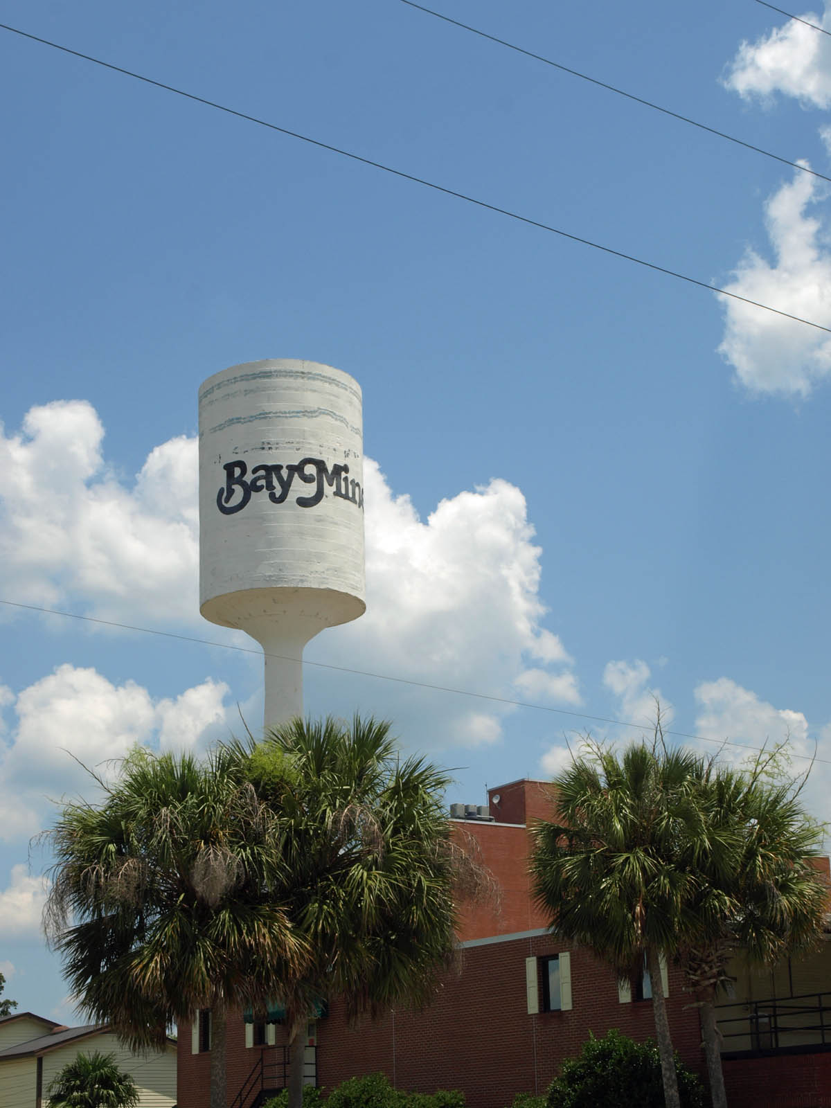 The Concrete Water Tower in Bay Minette, Alabama, listed on the Alabama Register of Landmarks and Heritage